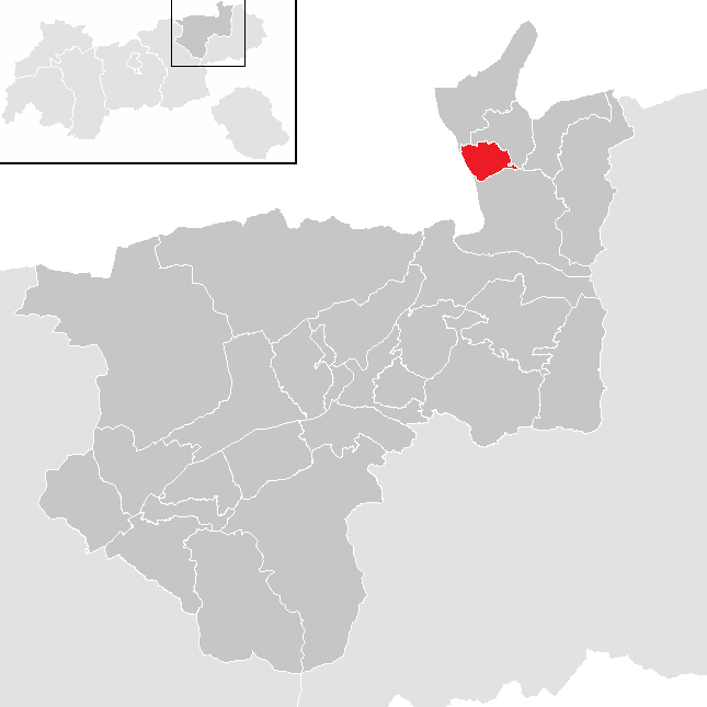 District Kufstein